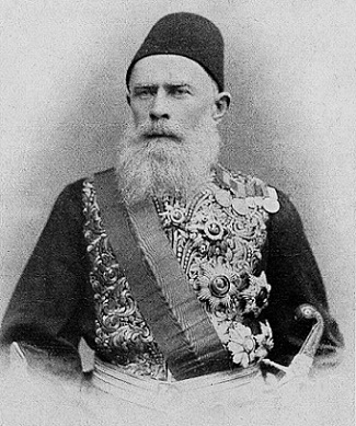 Ahmed Cevdet Pasha (1822-1895) Ottoman Government Minister, Statesman and a Legal Scholar